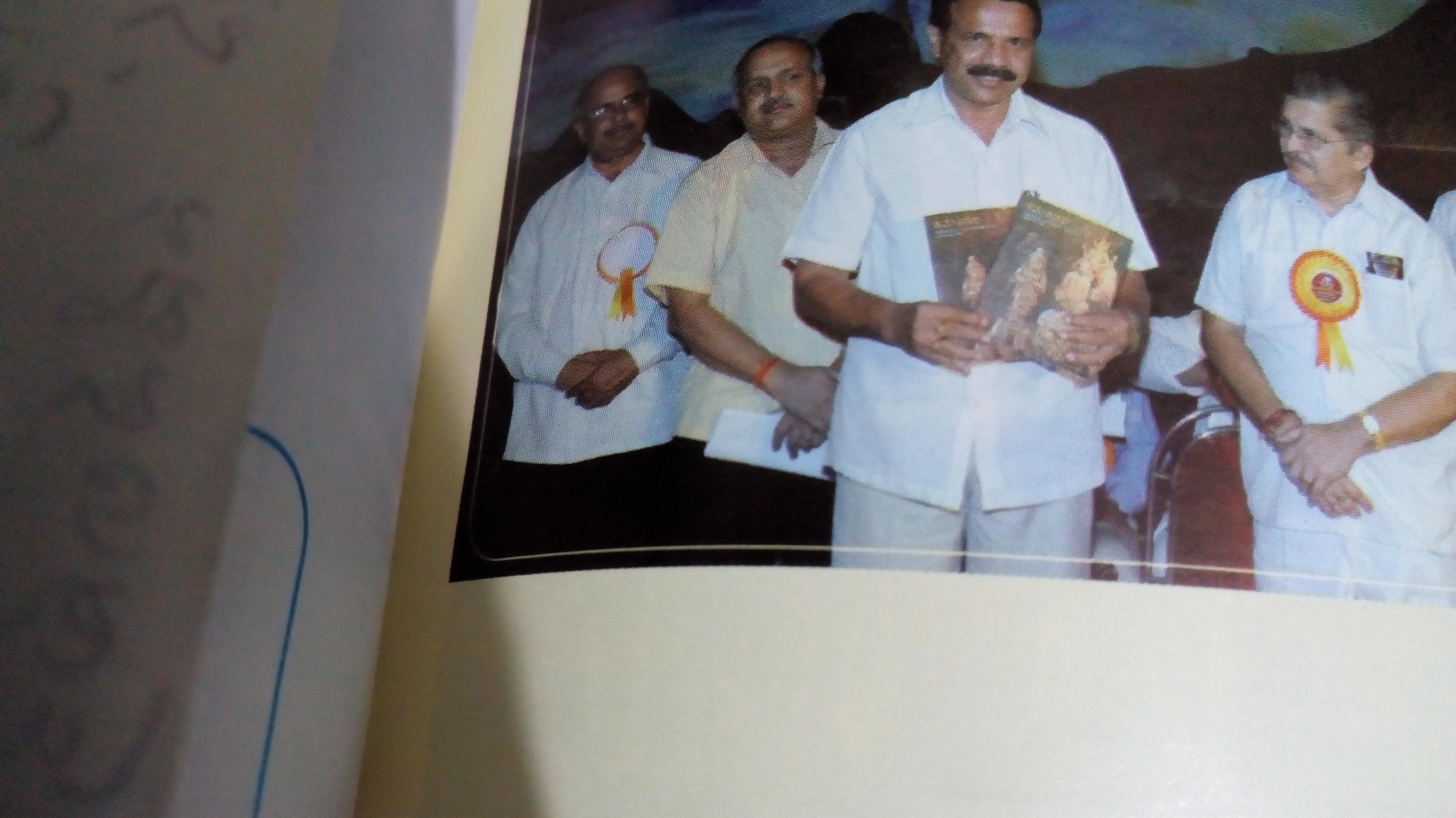 ಒಡಿಯೂರು